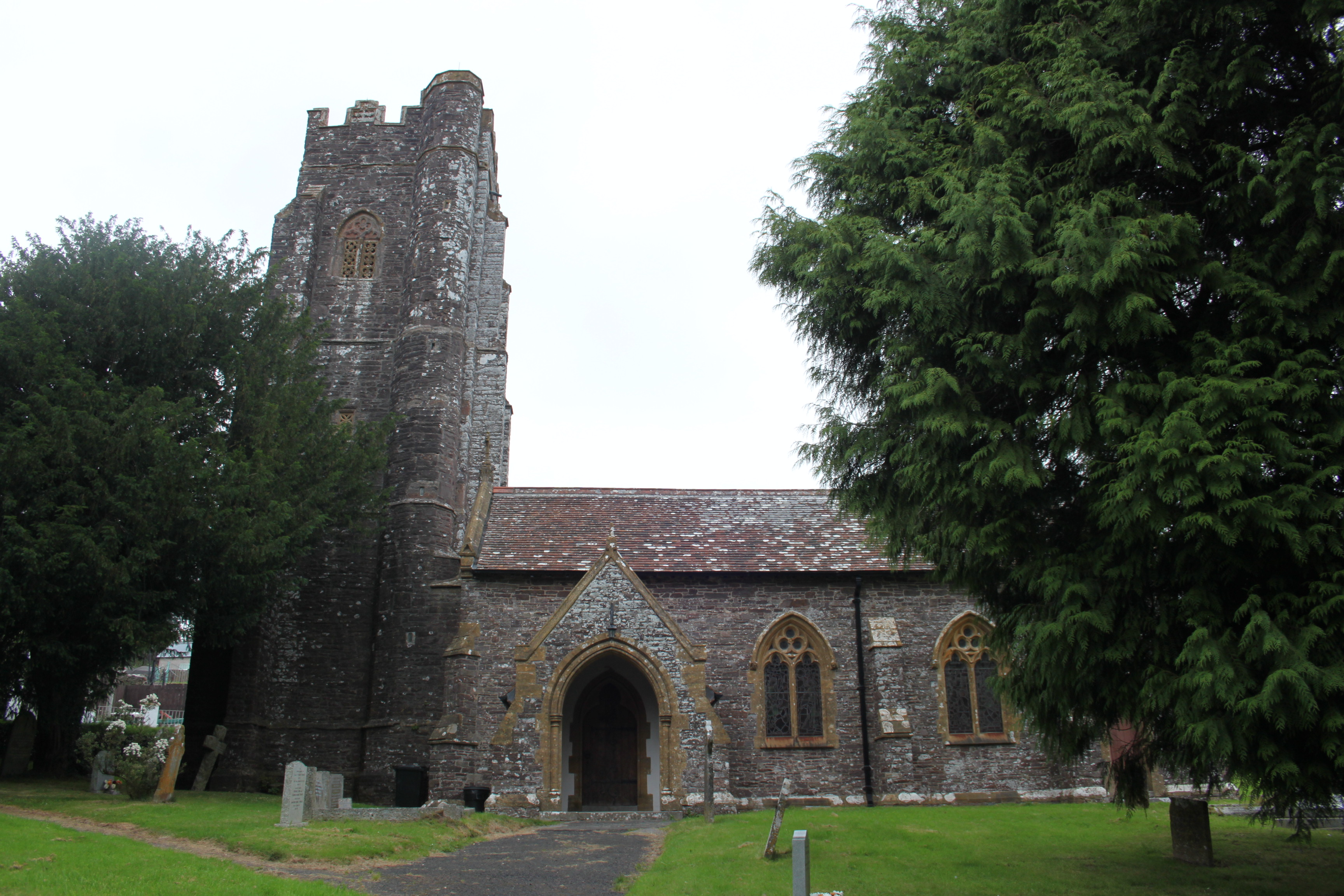 Church of St Michael, Chipstable, Somerset